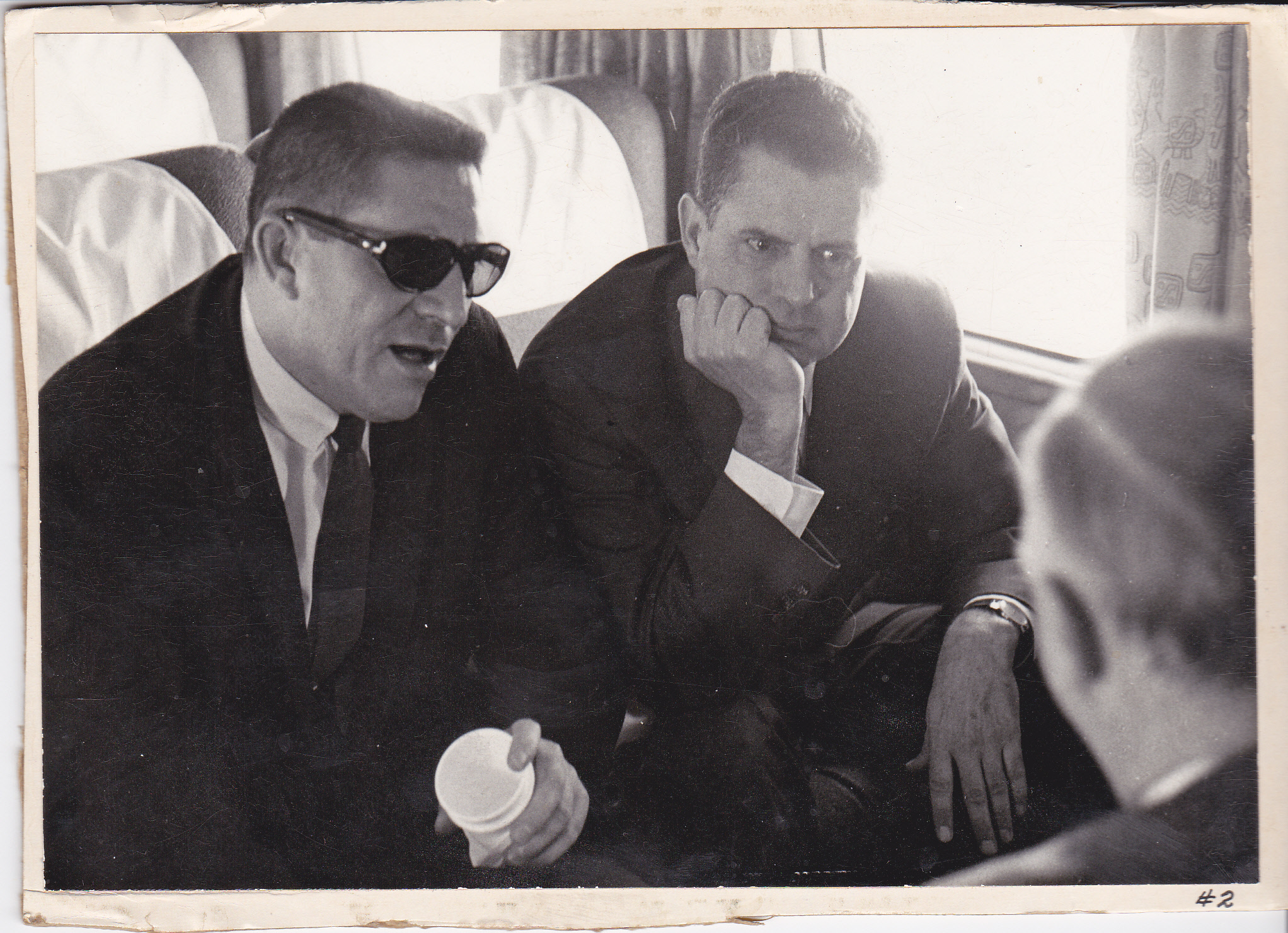 Sportswriter Joe McLaughlin on SWC Press Tour